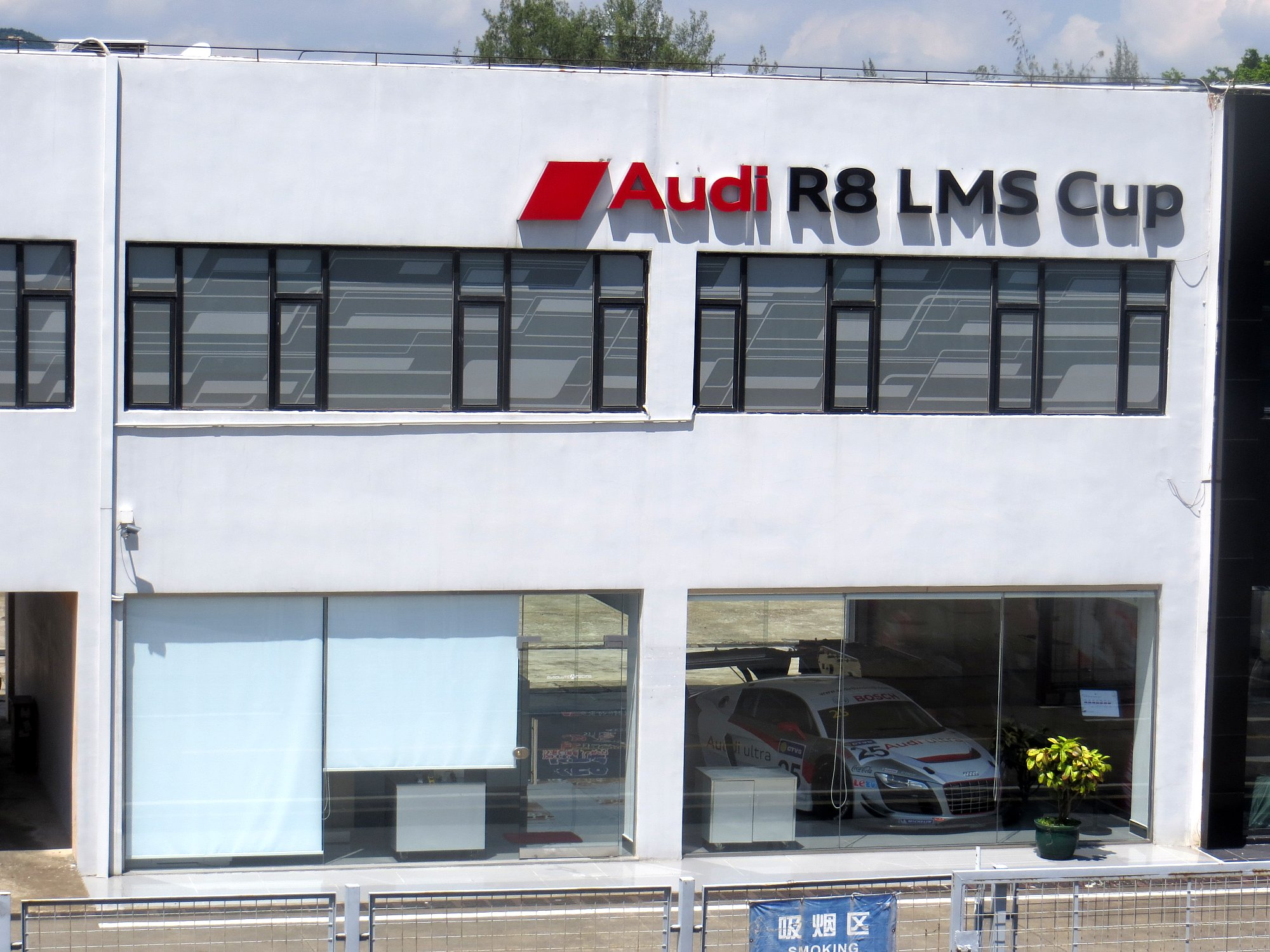 Audi R8 LMS Cup office and shop at Zhuhai International Circuit in 2013.中文（香港）: 珠海國際賽車場內的奧迪R8 LMS杯辦公室--2013年